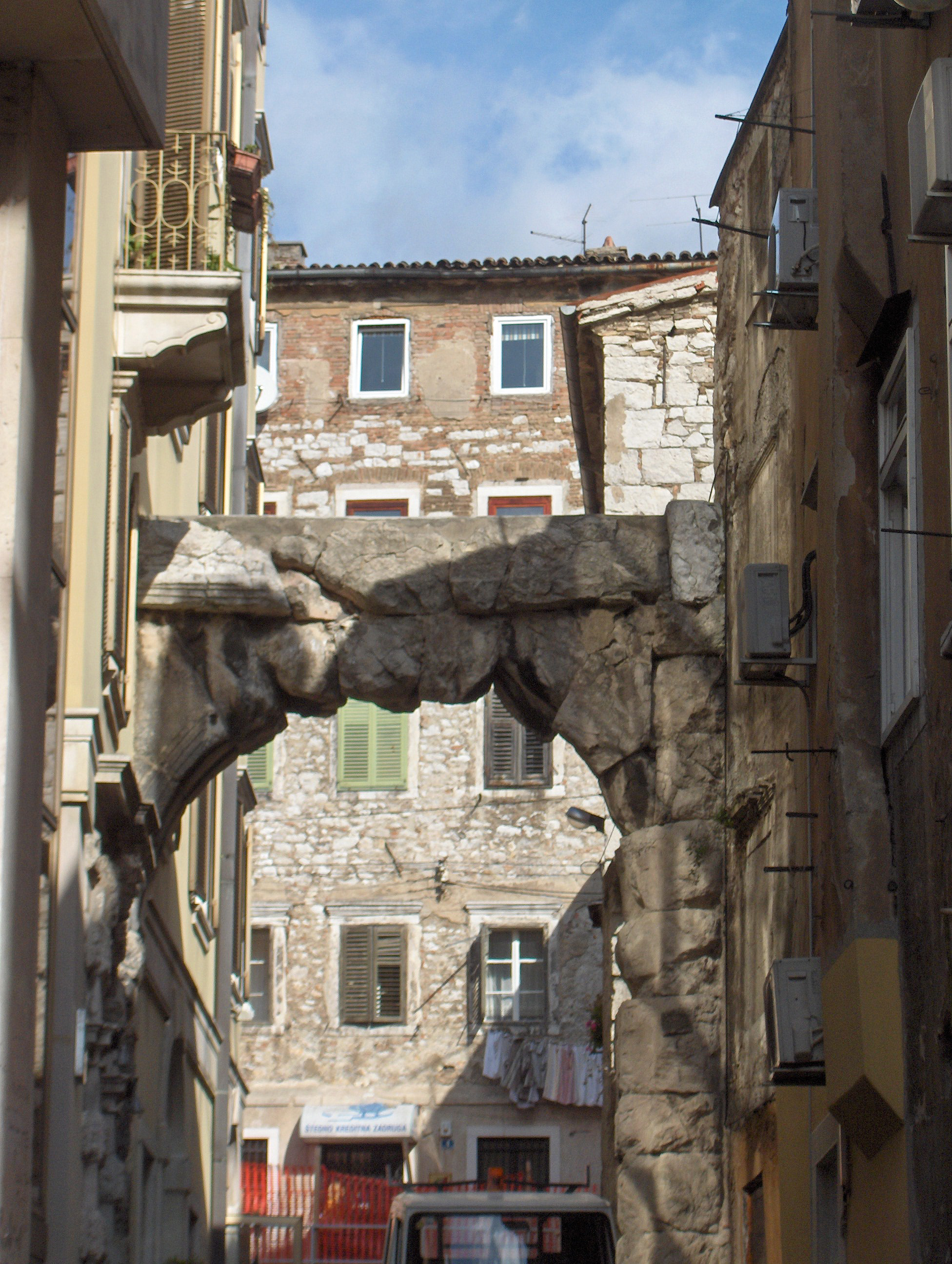 The old gateway Roman arch; Rijeka, Croatia